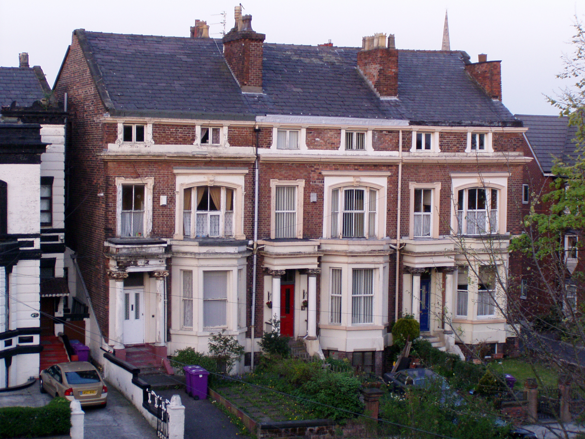 House on Beech Street, Liverpool